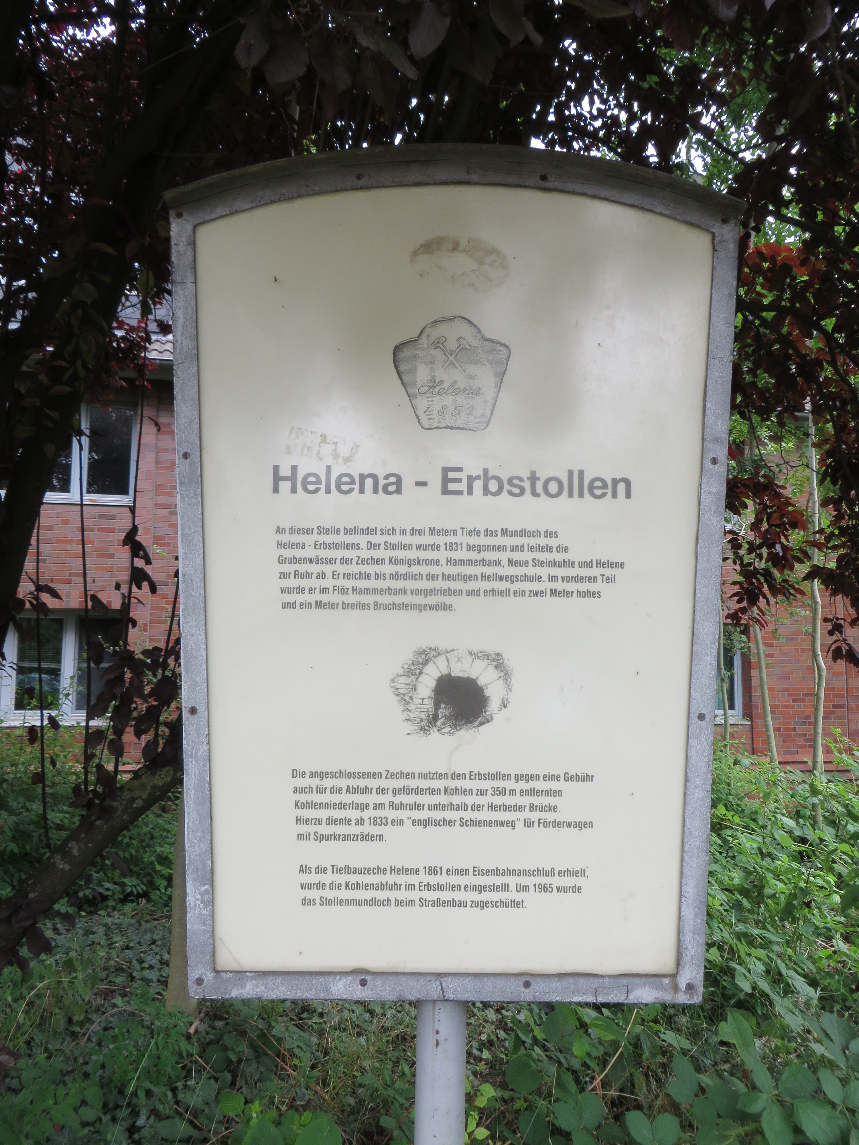 Information board about former coal mine Helena Erbstollen in Witten, GermanyEsperanto: Informilo pri eksa terkarbminejo Helena Erbstollen en Witten, Germanio